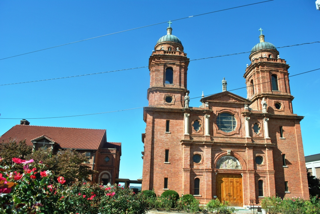 Basilica of St. Lawrence, Asheville